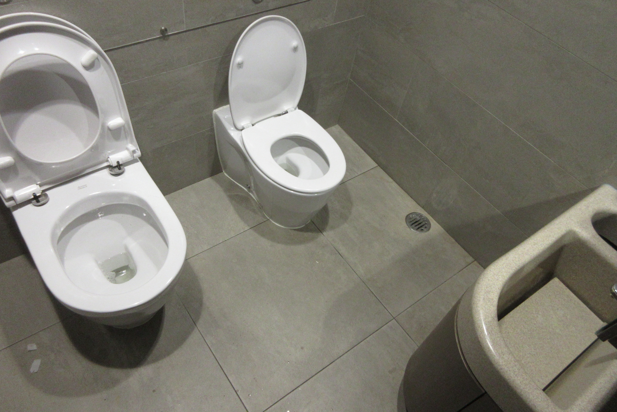 HK Tuen Mun Castle Peak Road 恆福花園 Hanford Garden Plaza in December 2017